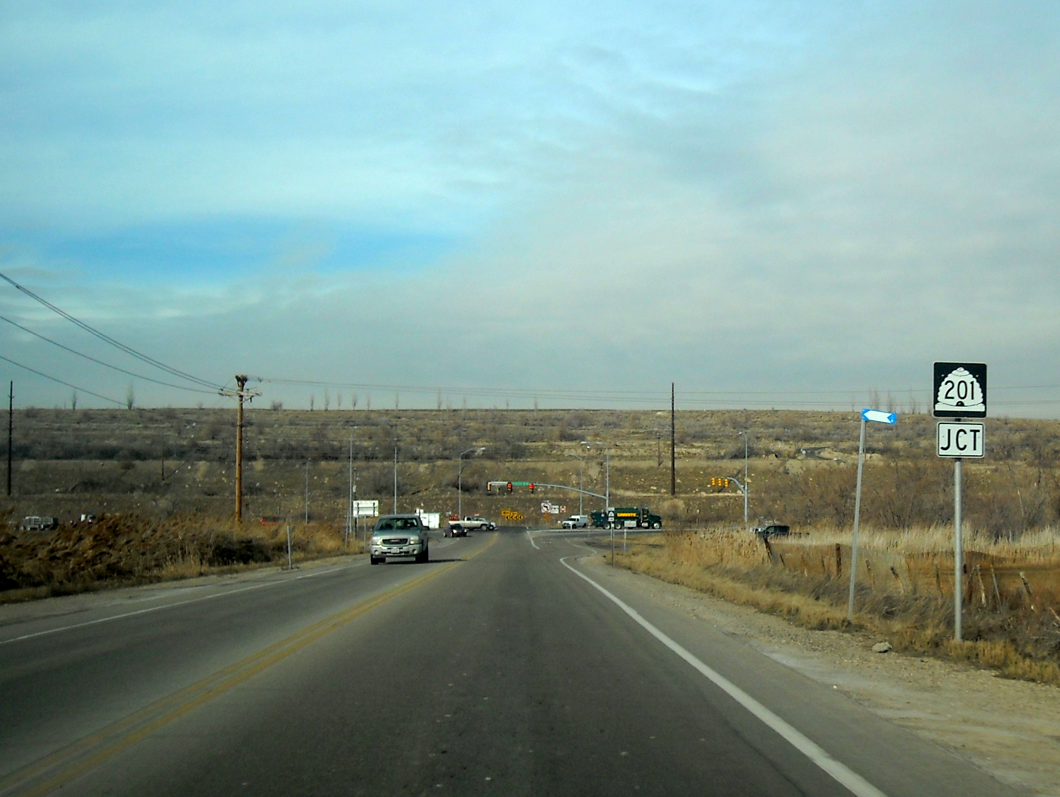 Before the 1950s, this was the routing of US-50. The highway would turn from 84th West (now SR-111) westbound on present-day SR-201 on its way to Nevada.